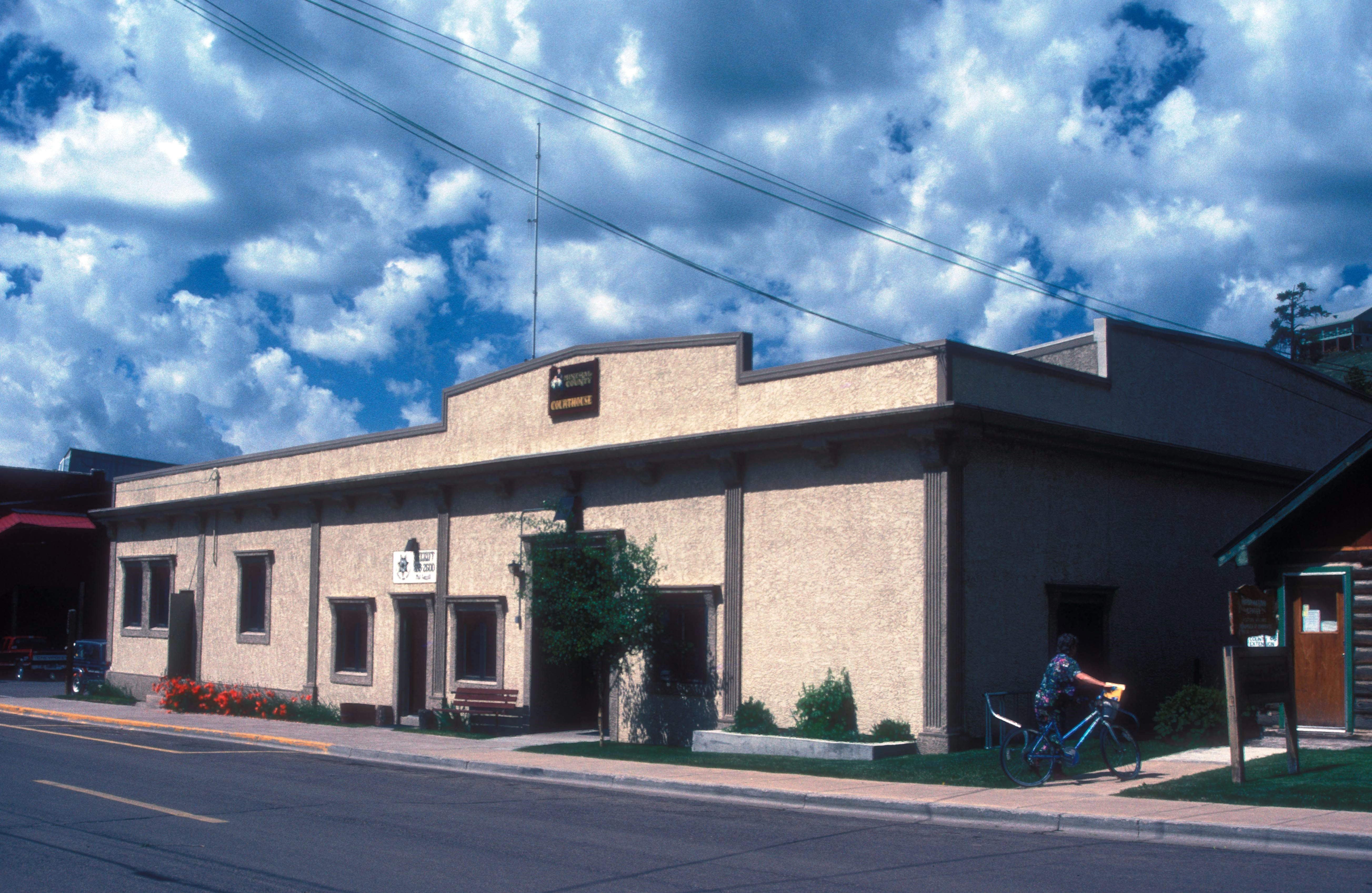 THIS SMALL ROCKY MOUNTAIN COURTHOUSE WAS ORIGINALLY BUILT IN 1950 BUT WAS REMODELED IN 1987.